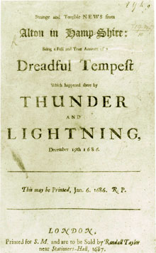 Front of local news sheet